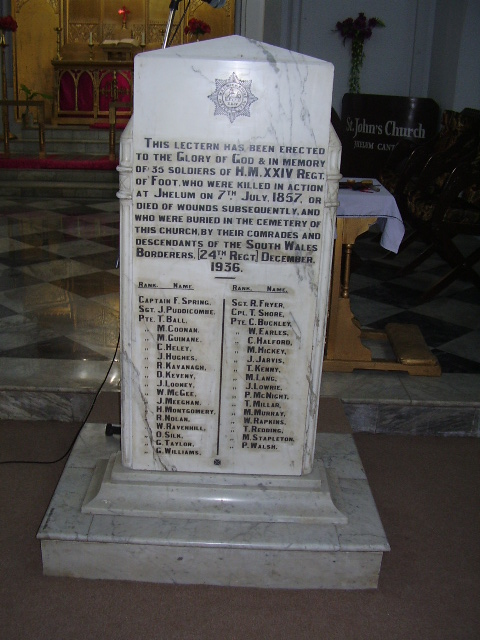 Picture of the Historic Lectern present in St. John's Church Jhelum